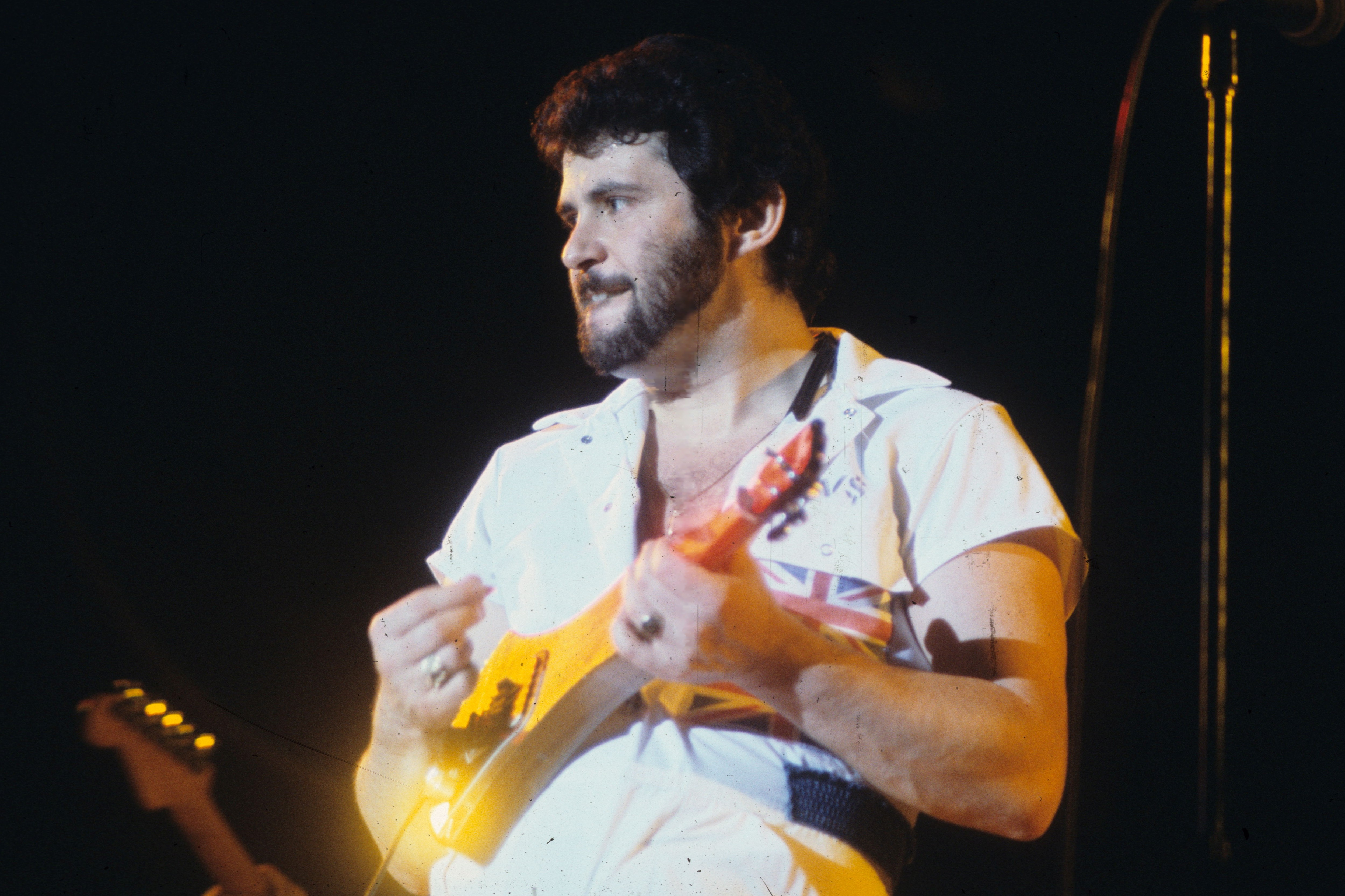 Taken at Yale University, Woolsey Hall, New Haven, CT. Derek Schulman of Gentle Giant